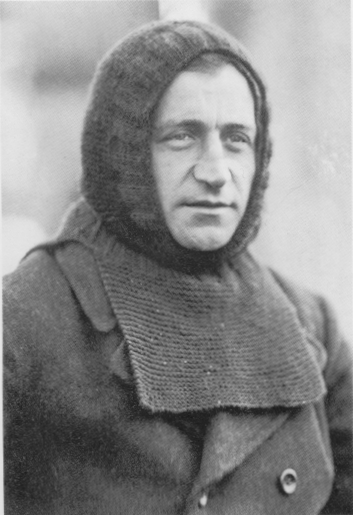 Robert Clark, crew member of Endurance (biologist)